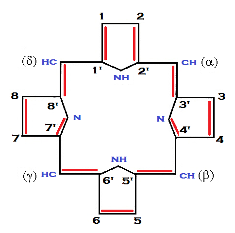 A molecule of porfirine